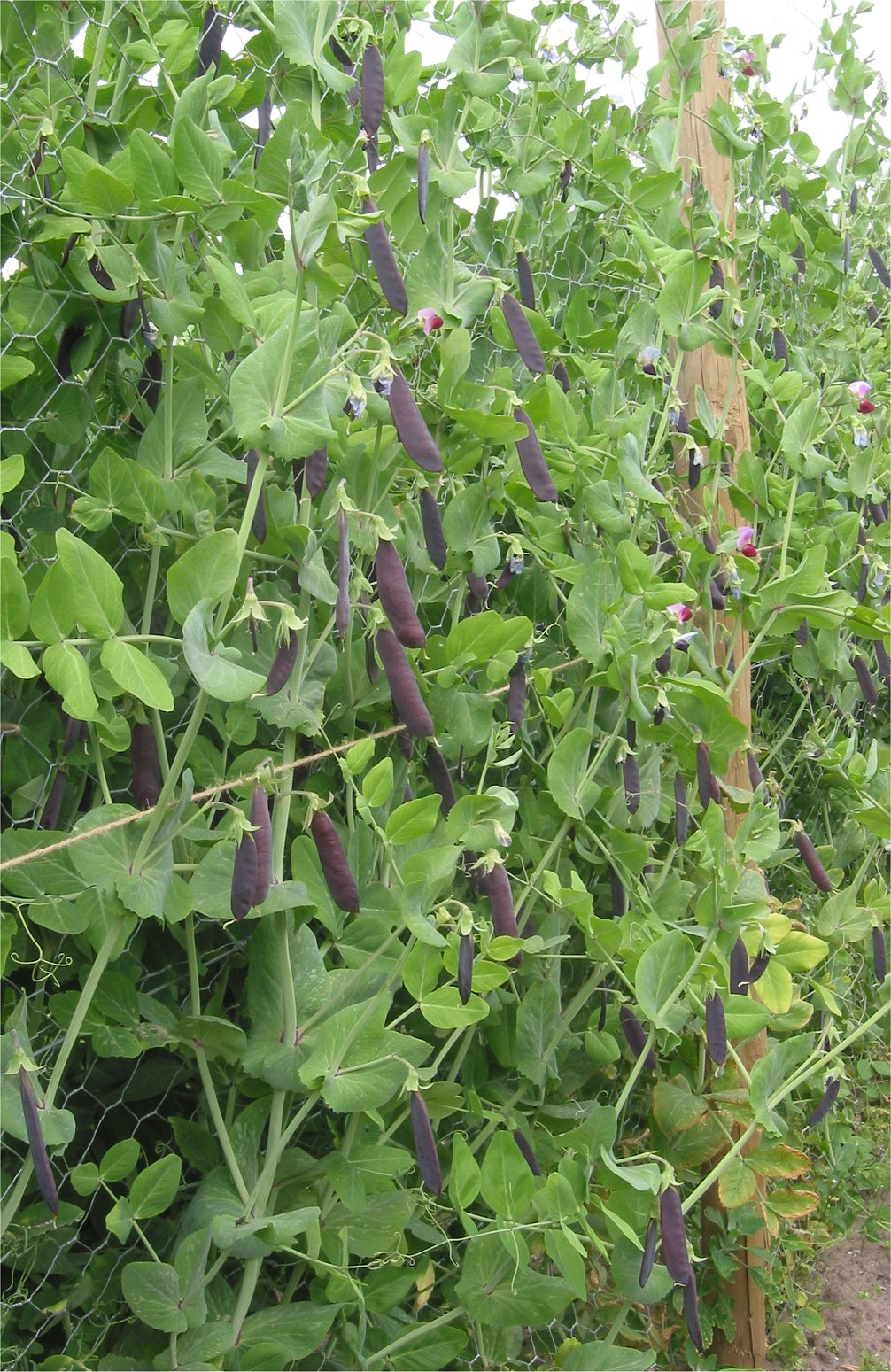 Brown marrowfats Pisum sativum plants